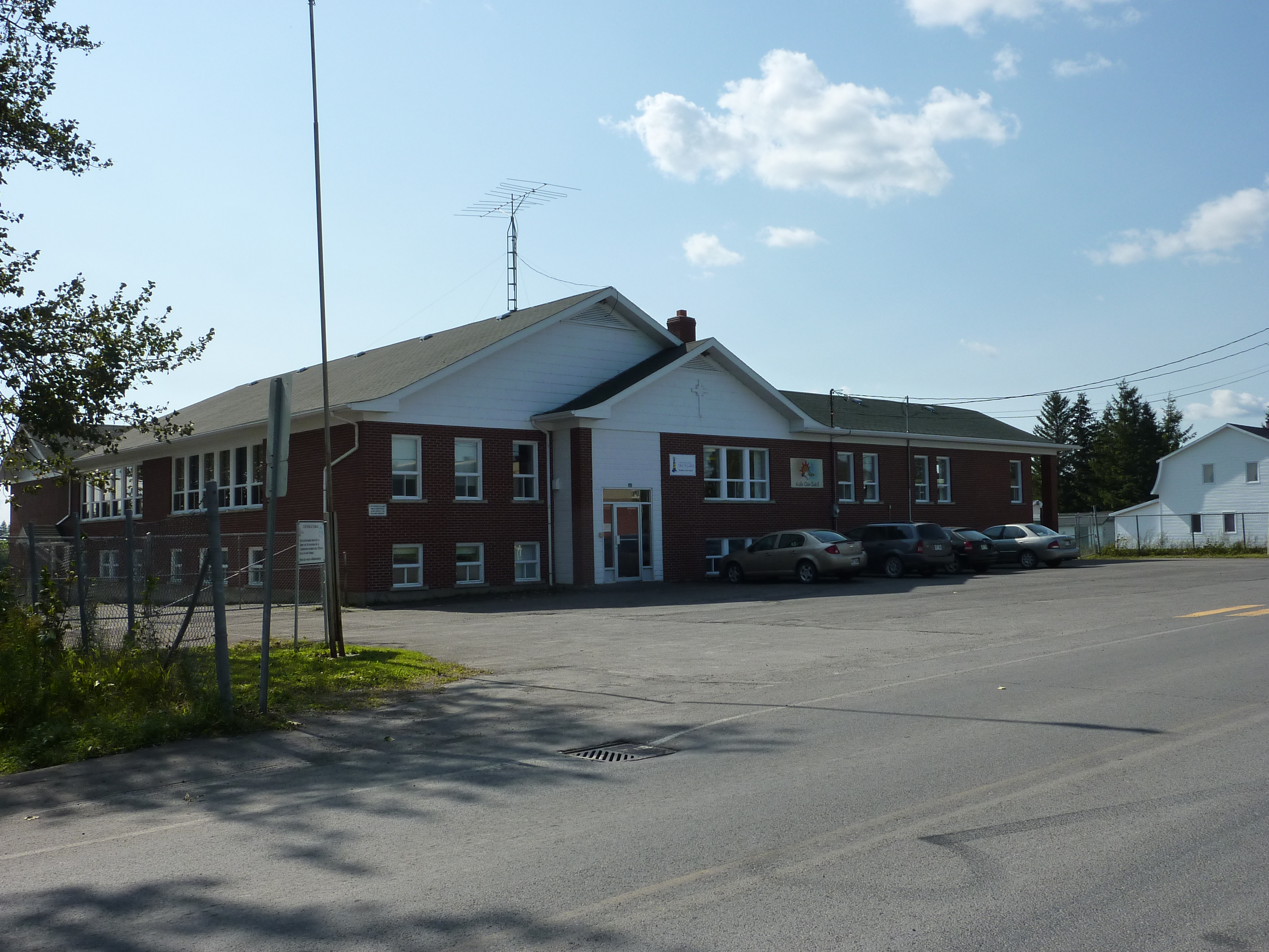 La Rédemption's Elementary School, Qc